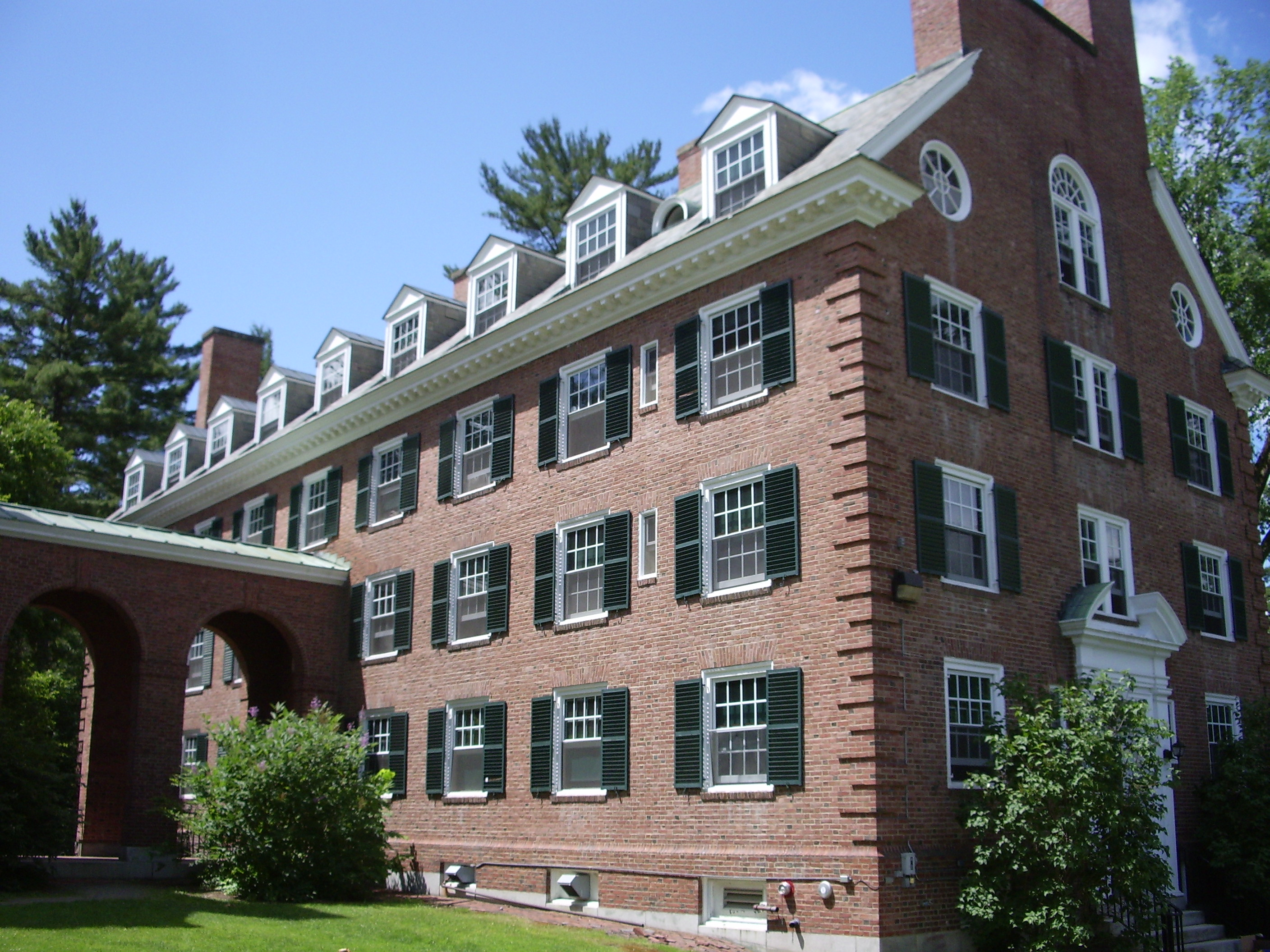 Photograph of Lord Hall at the campus of Dartmouth College in Hanover, New Hampshire.